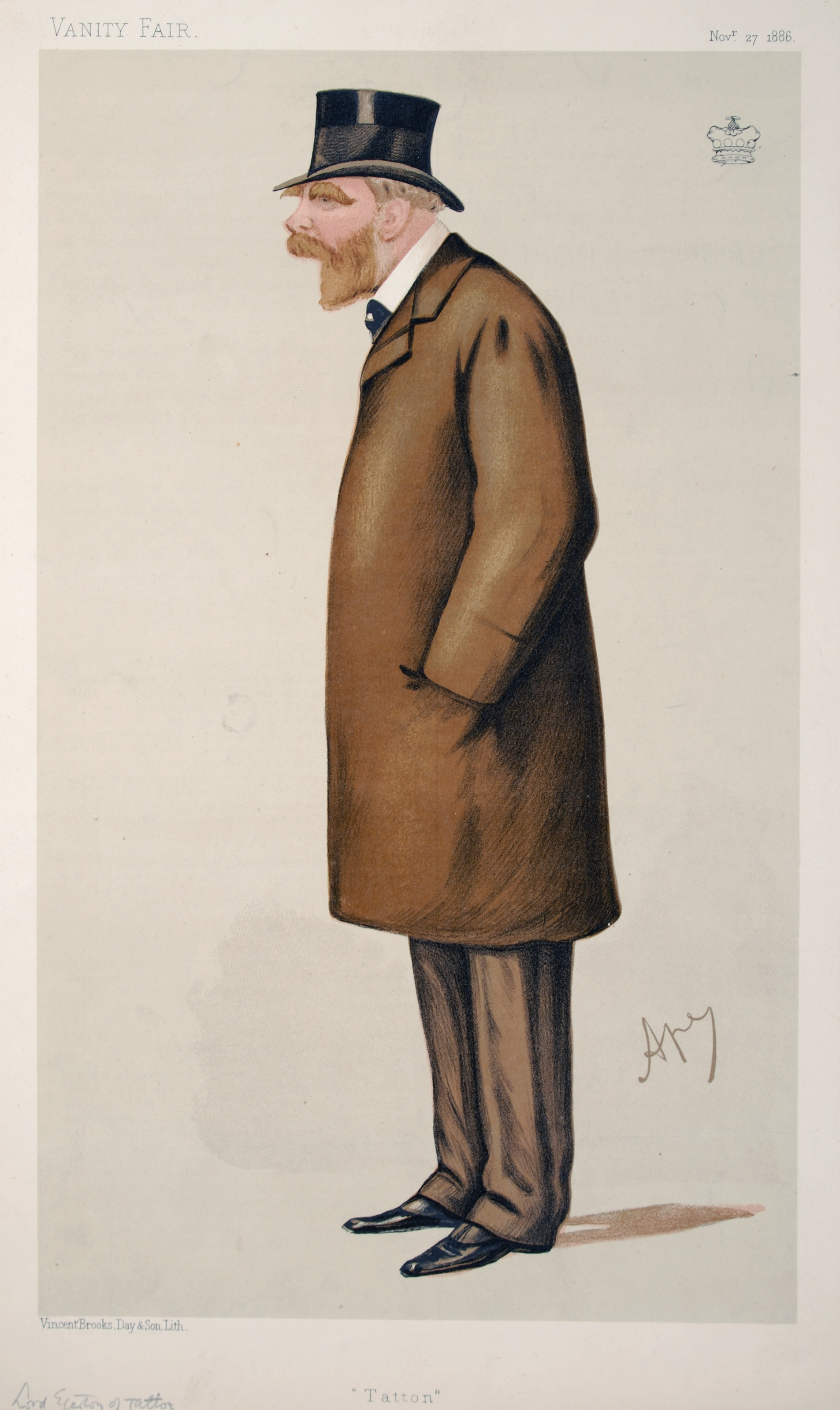 Statesmen No.506: Caricature of Lord Egerton of Tatton. Caption reads: "Tatton."